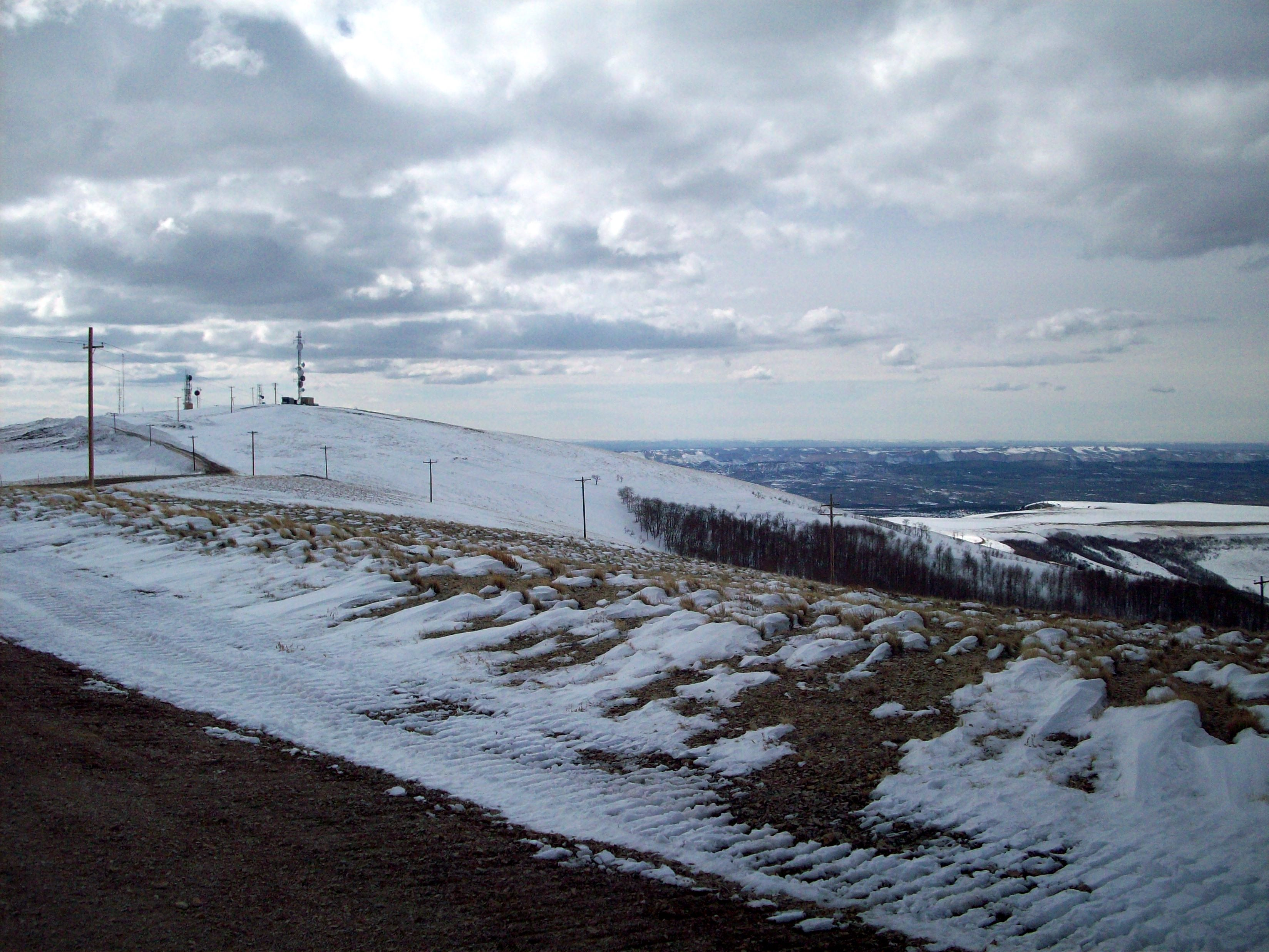 This is why this mountain is called Aspen Mountain. Patches of Aspen trees on the north face, looking west. Aspen Mountain (Wyoming), south of Rock Springs.